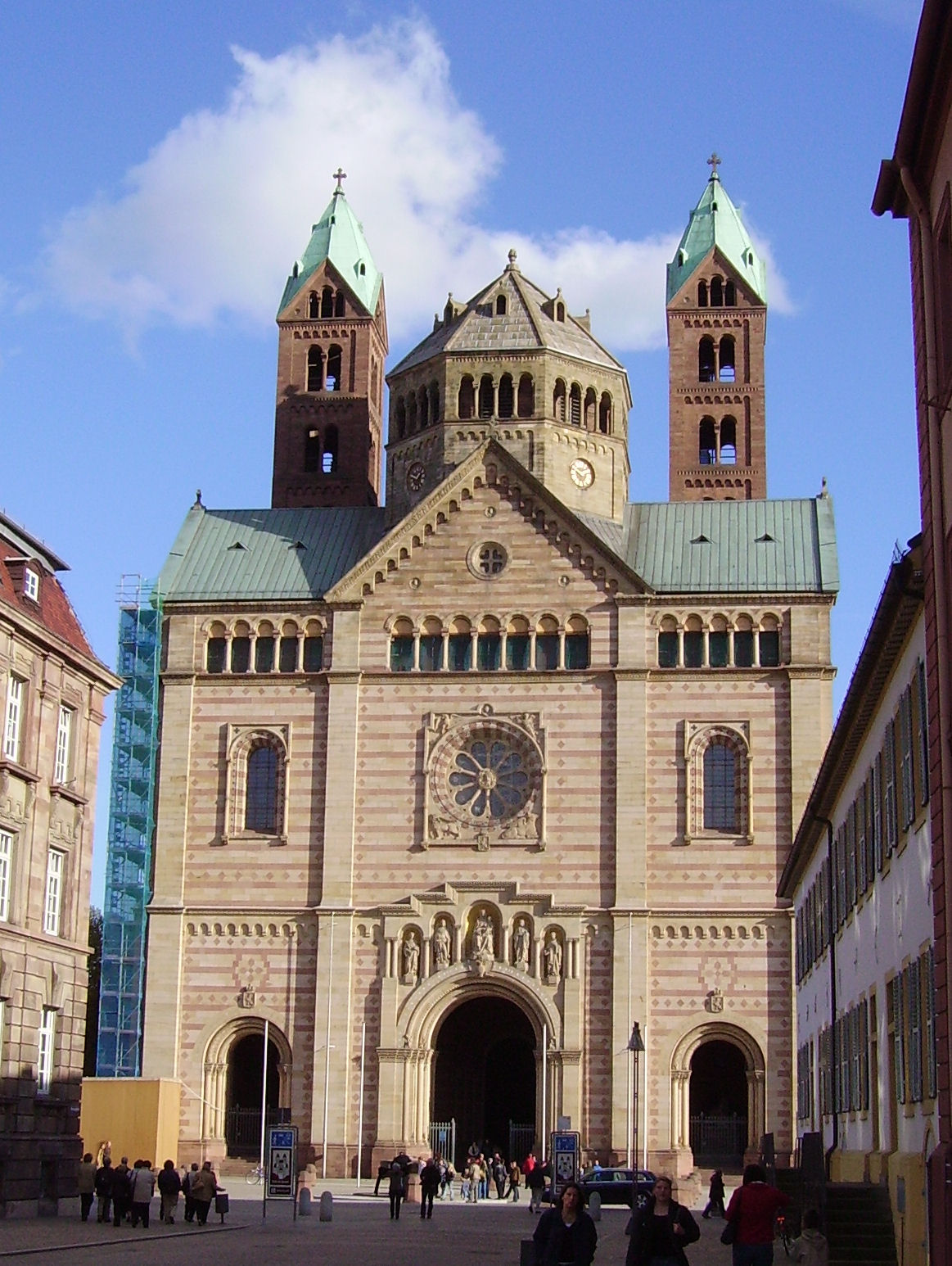 Description: Speyrer Dom (Cathedral of Speyer, Germany) Source: own photography Date: November 2005 Author: --Immanuel Giel 12:20, 7 November 2005 (UTC) Other versions: none Speyrer Dom Dom van Speyer Speyers domkyrka 施派爾大教堂